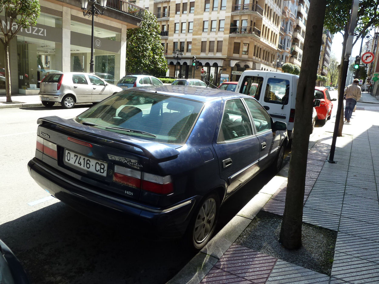 Cars